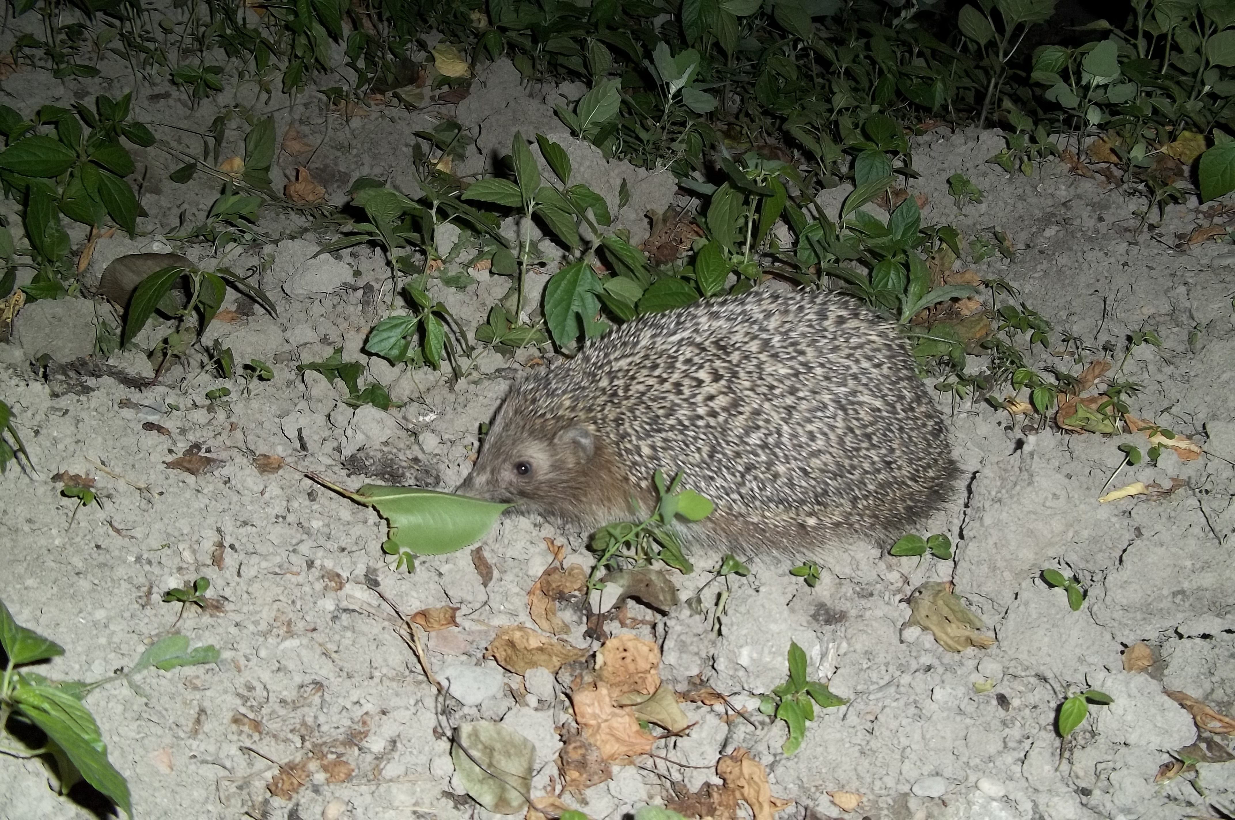 Erinaceidae (Azerbaijan)